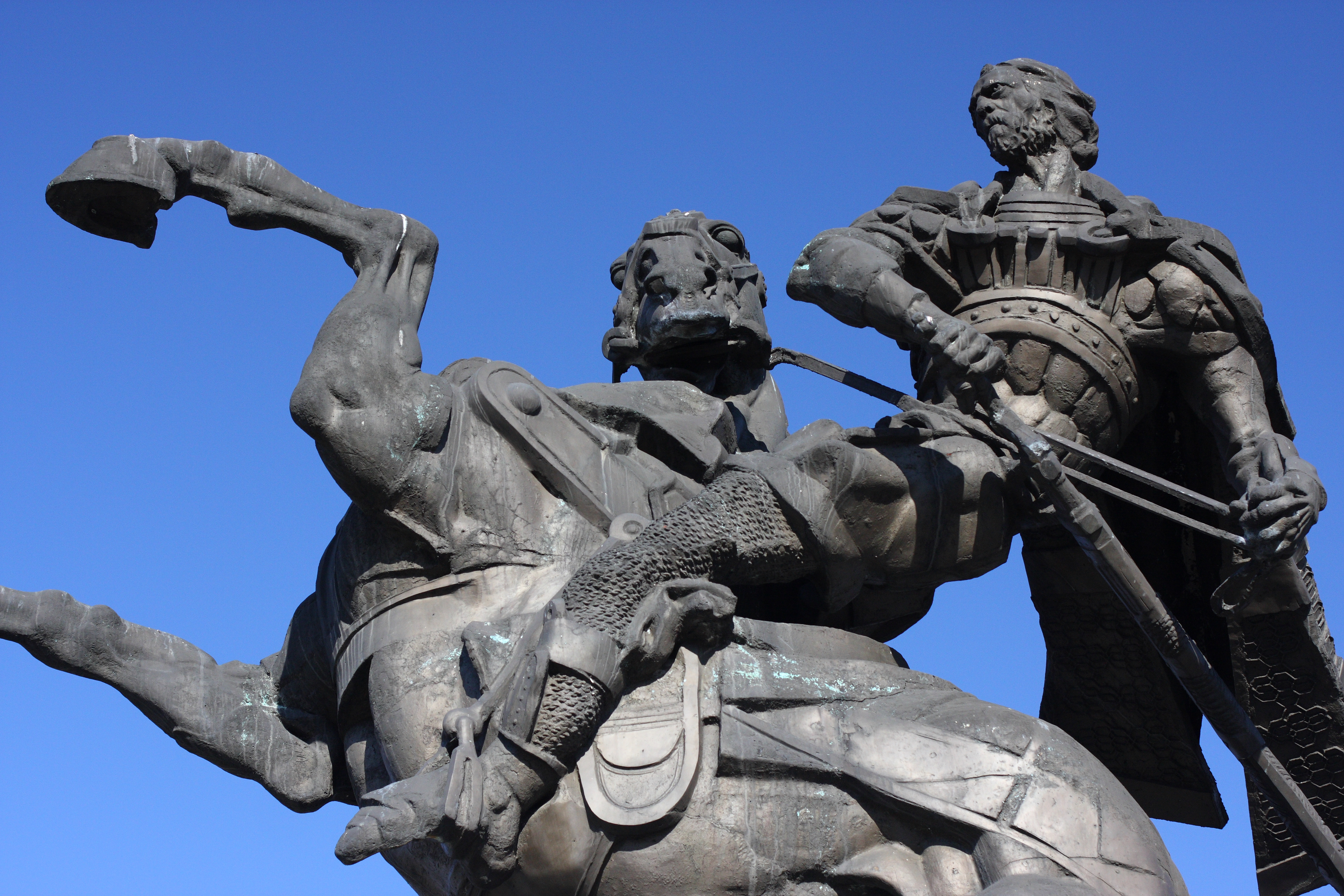 Monument of the Asens, Veliko Tarnovo, Bulgaria